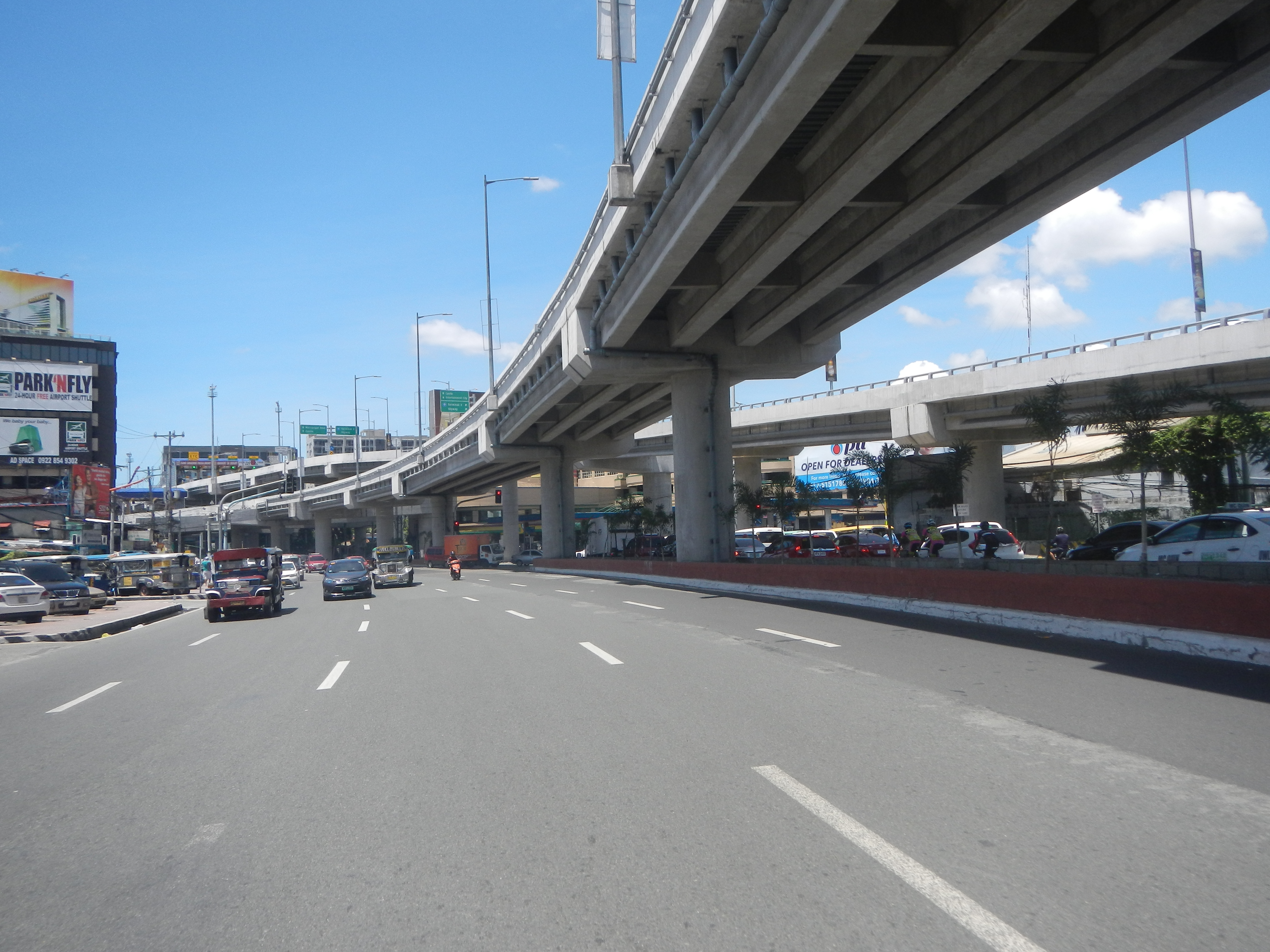 NAIA Expressway - NAIA Road, Pasay & Parañaque City NAIA Road - NAIAx Junction, Intersection - Domestic Road, Tambo, Parañaque City; Tambo Bridge, Parañaque City River NAIA Road - NAIAx; KM Sta.7+909 20 metric tons load limit I.D. No. BO1833LZ MIA Road, Pasay City 14°30'37"N 121°0'29"E NAIA Road 14°30'57"N 121°0'9"E Domestic Road 14°31'19"N 121°0'3"E NAIAx to Domestic Road to NAIA Road Legislative districts of Parañaque 1st District, Districts and barangays, Barangay Tambo 14°30'59"N 120°59'20"E, Parañaque City to List of barangays of Metro Manila Barangay 193, Zone 20, District I, and Barangays 194, 195, 196, 197, 198 and 199, Zone 20, District I, Pasay City Improvement of NAIA Road Outfall from Barangay Tambo Bridge to Nayong Filipino Creek P 36.741 million NAIA Expressway Phase 1 (Skyway) and Phase 2 (NAIAx) (Note: Judge Florentino Floro, the owner, to repeat, Donor Florentino Floro of all these photos Judge Floro hereby donate gratuitously, freely and unconditionally Judge Floro all these photos to and for Wikimedia Commons, exclusively, for public use of the public domain, and again without any condition whatsoever).